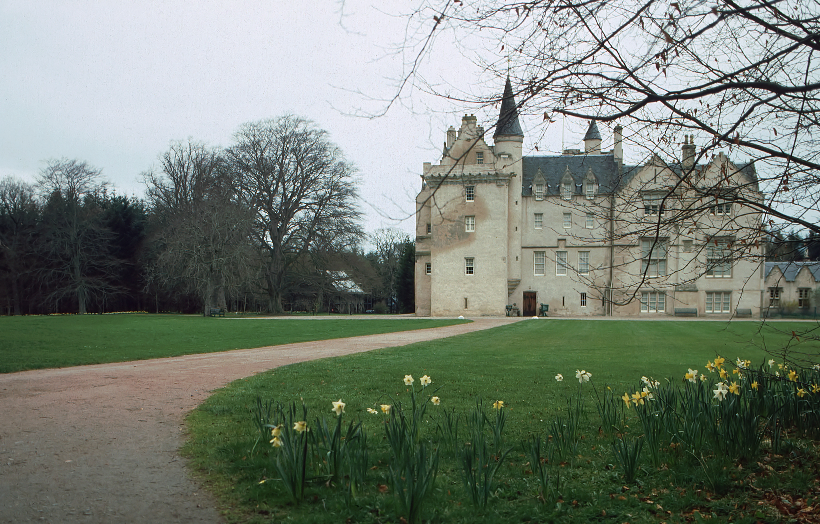 Brodie Castle, Moray, Scotland.